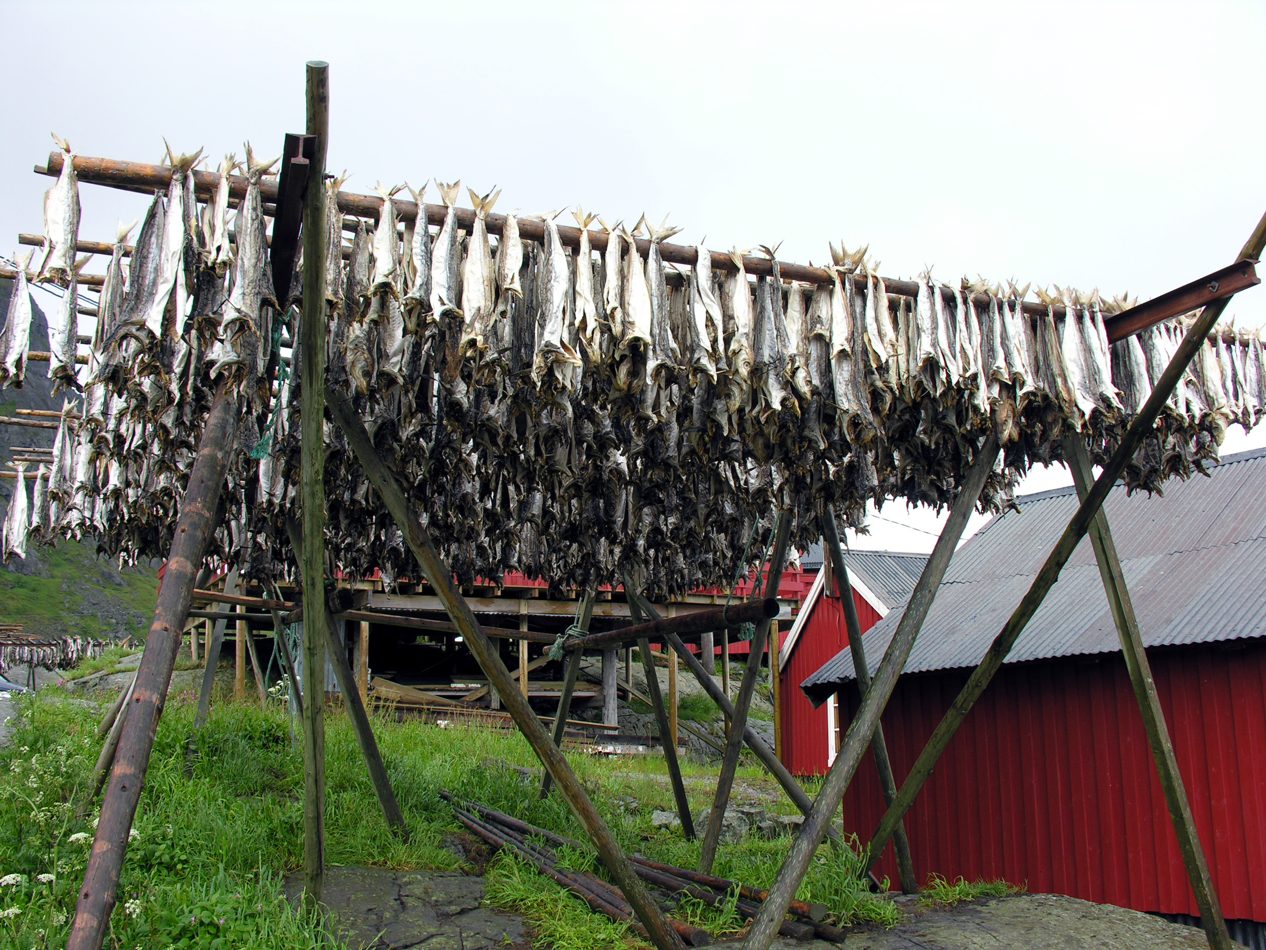 Stockfish in Lofoten, Norway. Stocafisso che si essicca nelle isole Lofoten